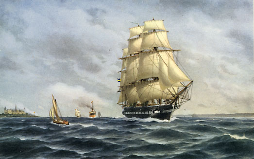 Swedish steamfrigate HMS Vanadis